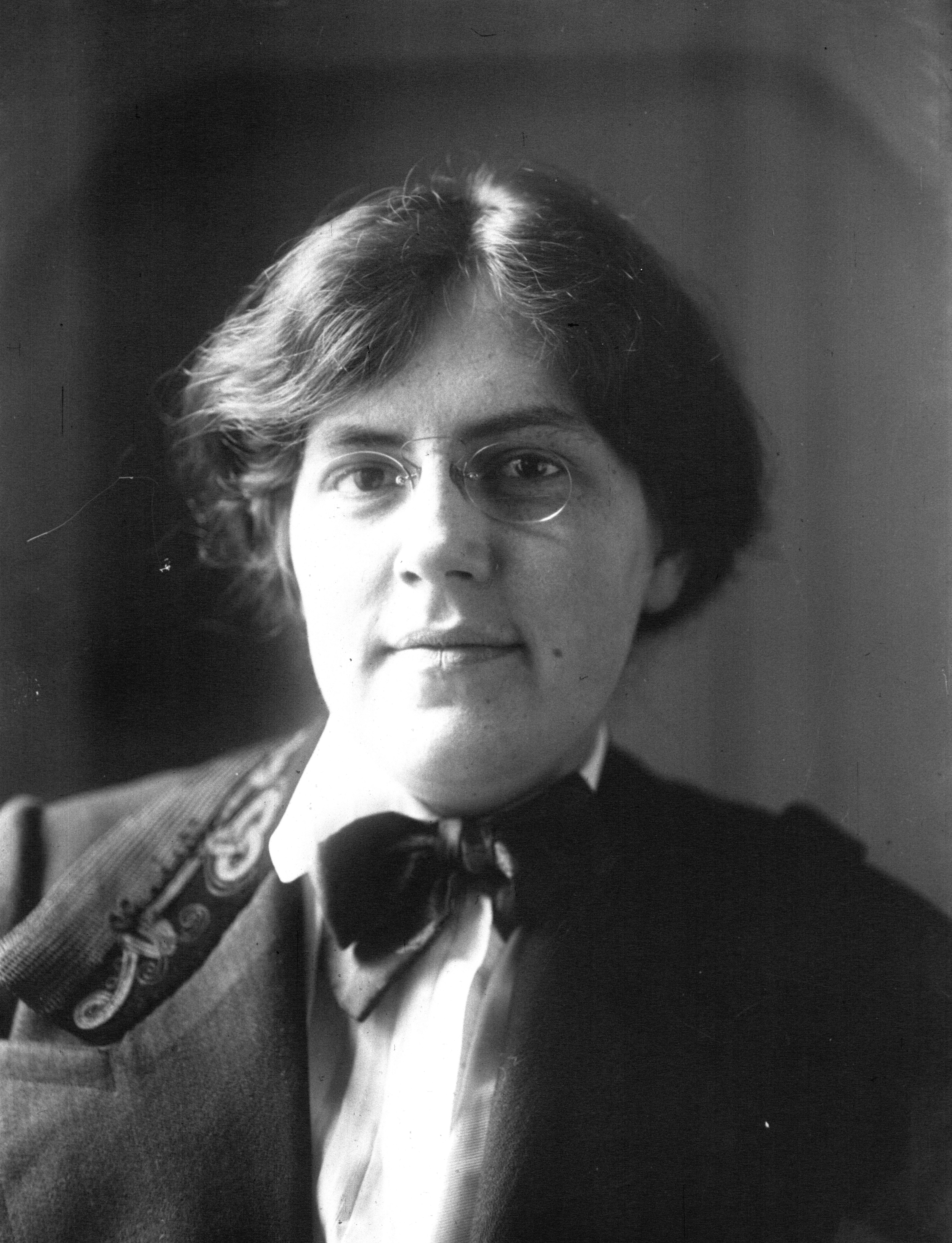 French composer Nadia Boulanger (1887-1979) in 1910.